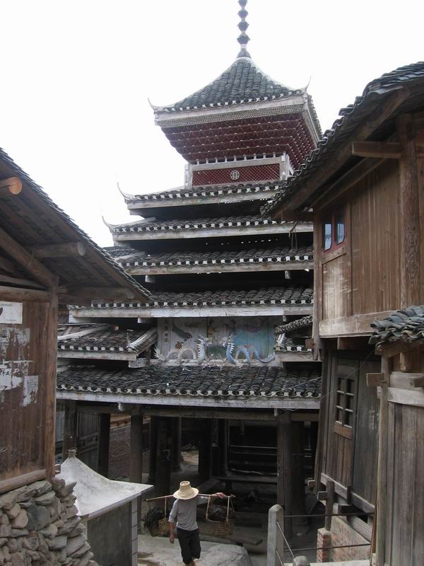 Drum tower in Tang'an village (堂安村) of Zhaoxing village (肇兴乡), of Liping county (黎平县), of Qiandongnan autonomous prefecture (黔东南洲) south Guizhou (贵州), China. Taken by Ariel Steiner